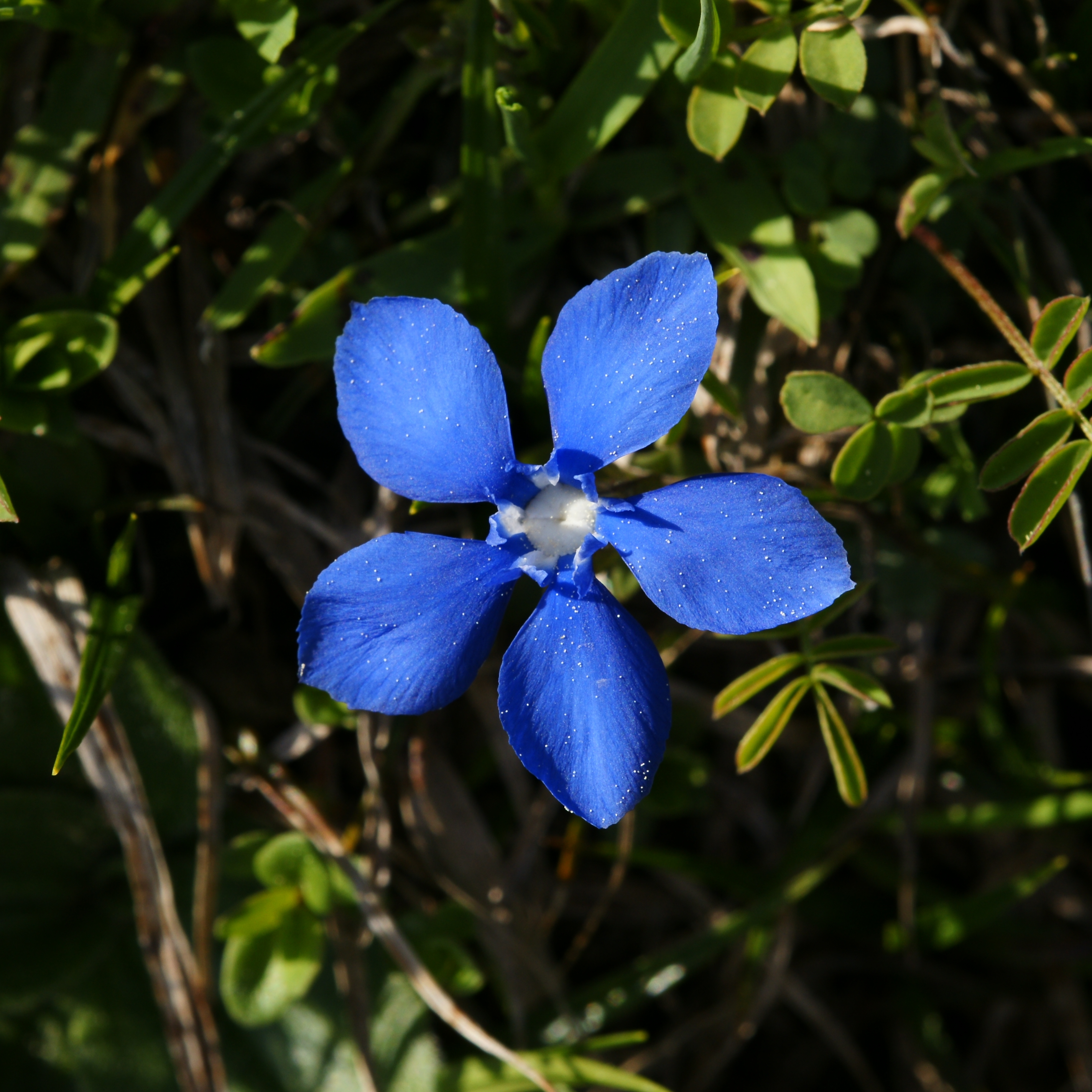 The Spring Gentian (Gentiana verna) is a species of the genus Gentiana and one of its smallest members, normally only growing to a height of a few centimetres.